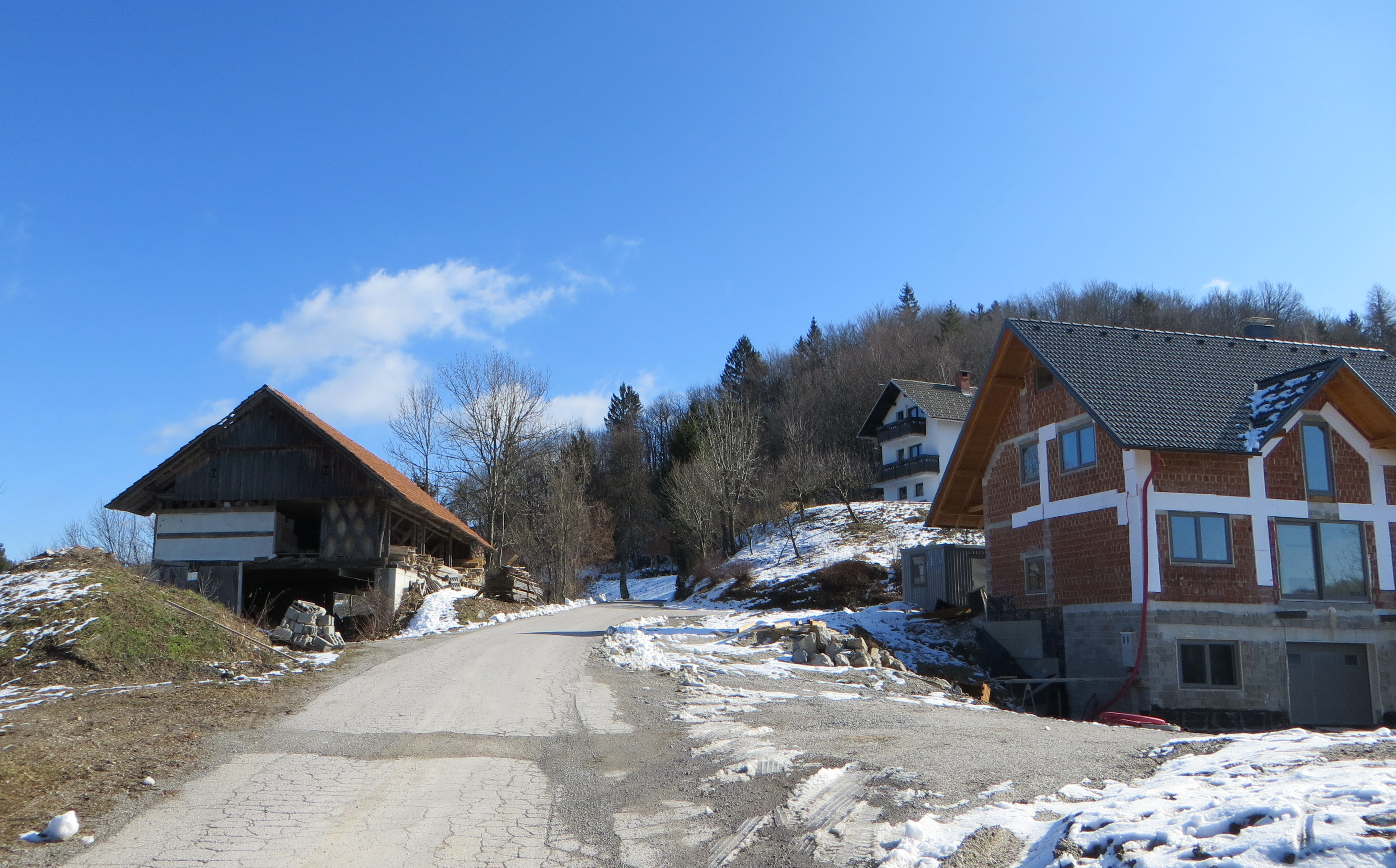 The Bozovičar farm in Zadobje, Municipality of Gorenja Vas–Poljane, Slovenia